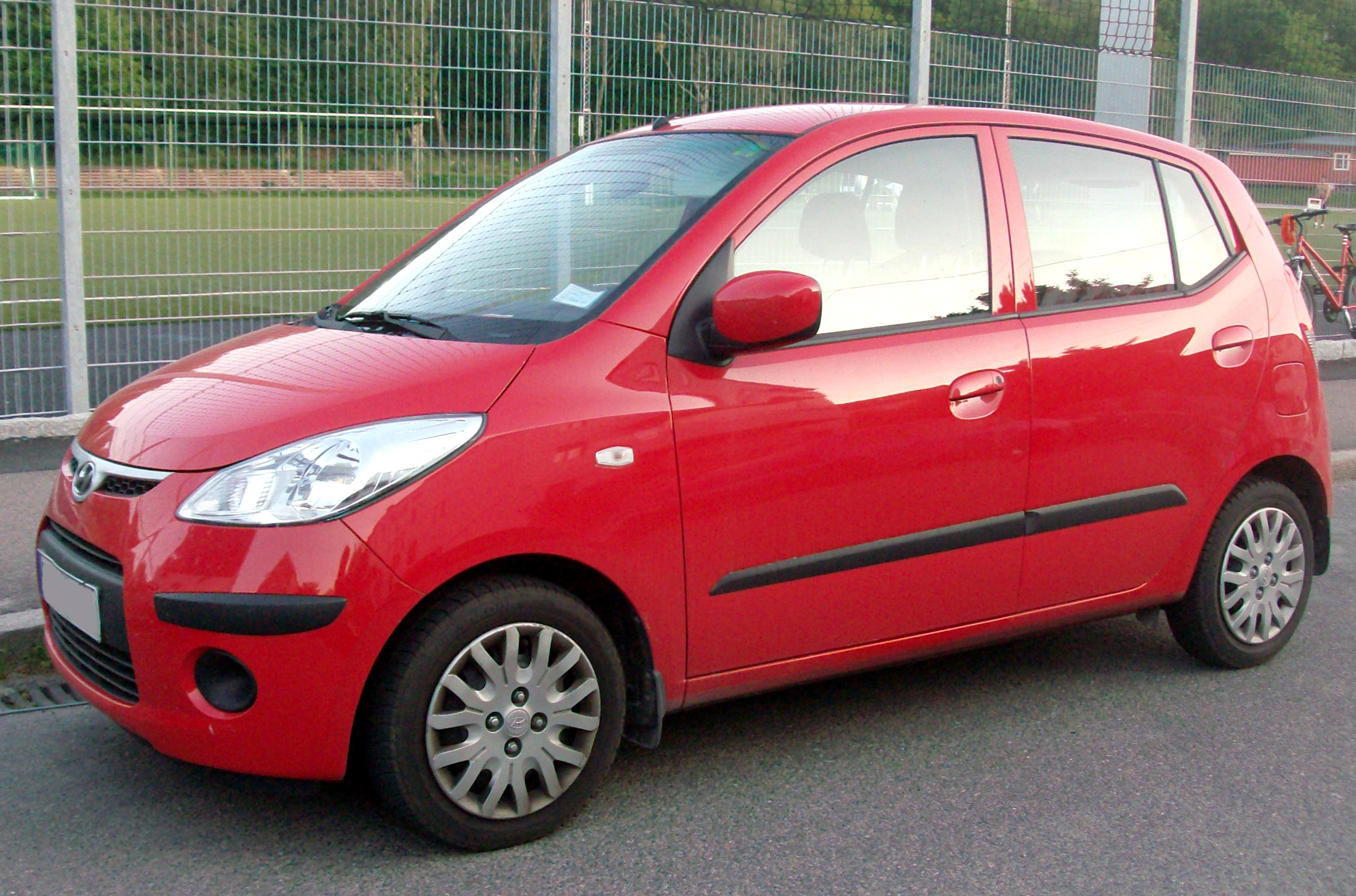 Hyundai i10 photographed in Gothenburg, Sweden.